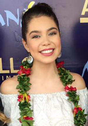 Auliʻi Cravalho, cropped from an image at the red carpet VIP screening of Disney's Moana in December 2016 in Samoa.